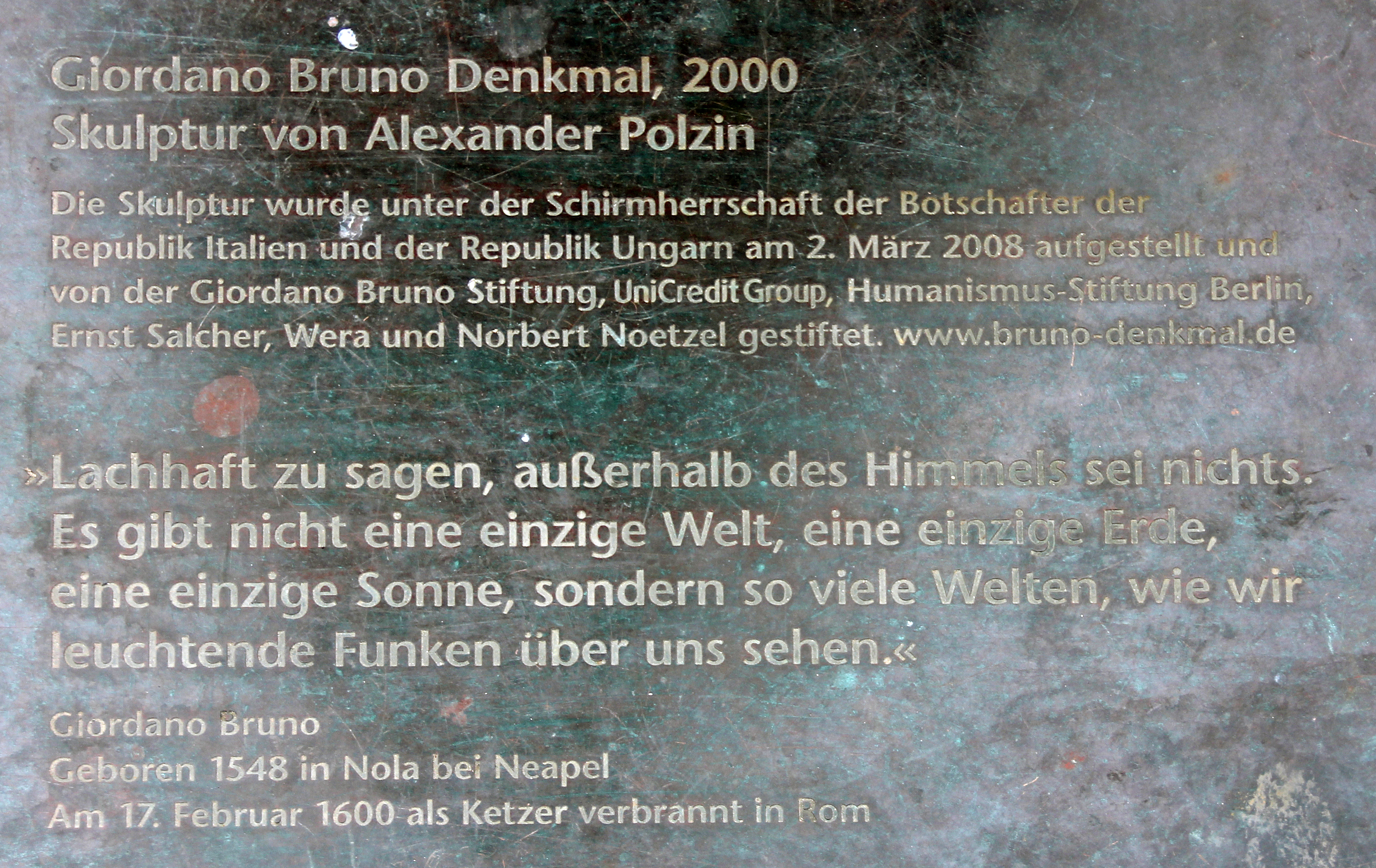 Memorial plaque, Giordano Bruno by Alexander Polzin, Potsdamer Platz, Berlin-Tiergarten, Germany